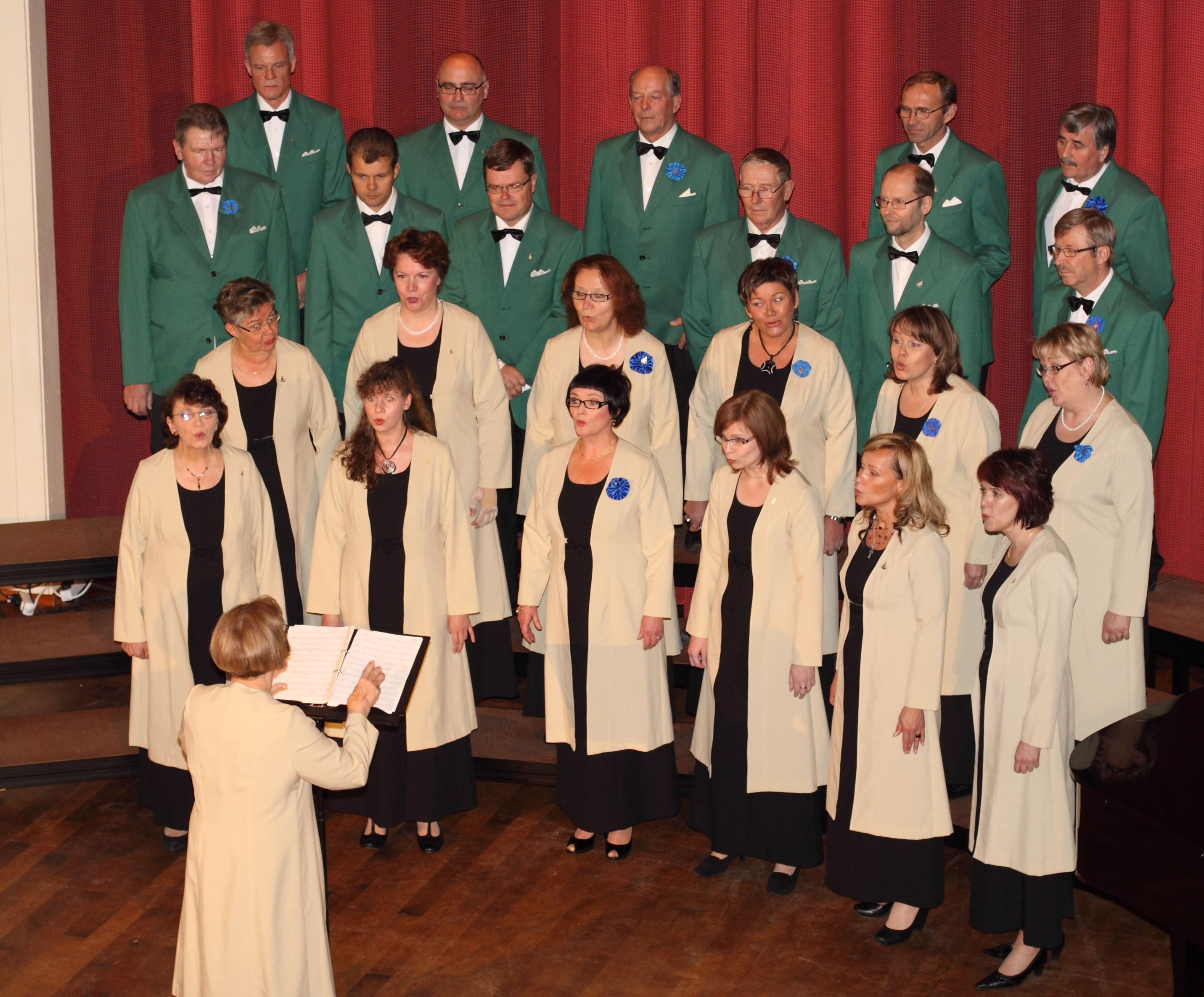 Salon Viihdelaulajat in consert